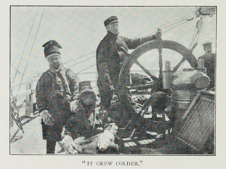 Captain of the SS South Cross ship on the Southern Cross Expedition ca 1899